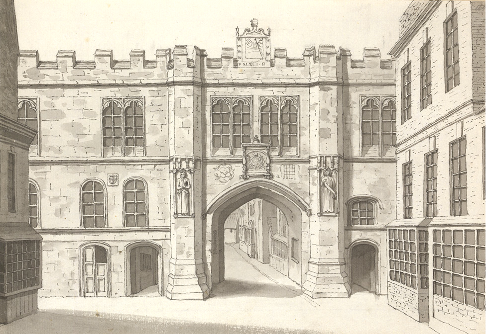 The Guildhall and Stonebow Lincoln by Samuel Hieronymus Grimm, c.1784.